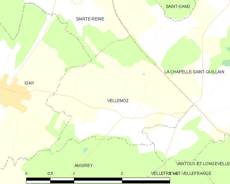 Map of French municipality